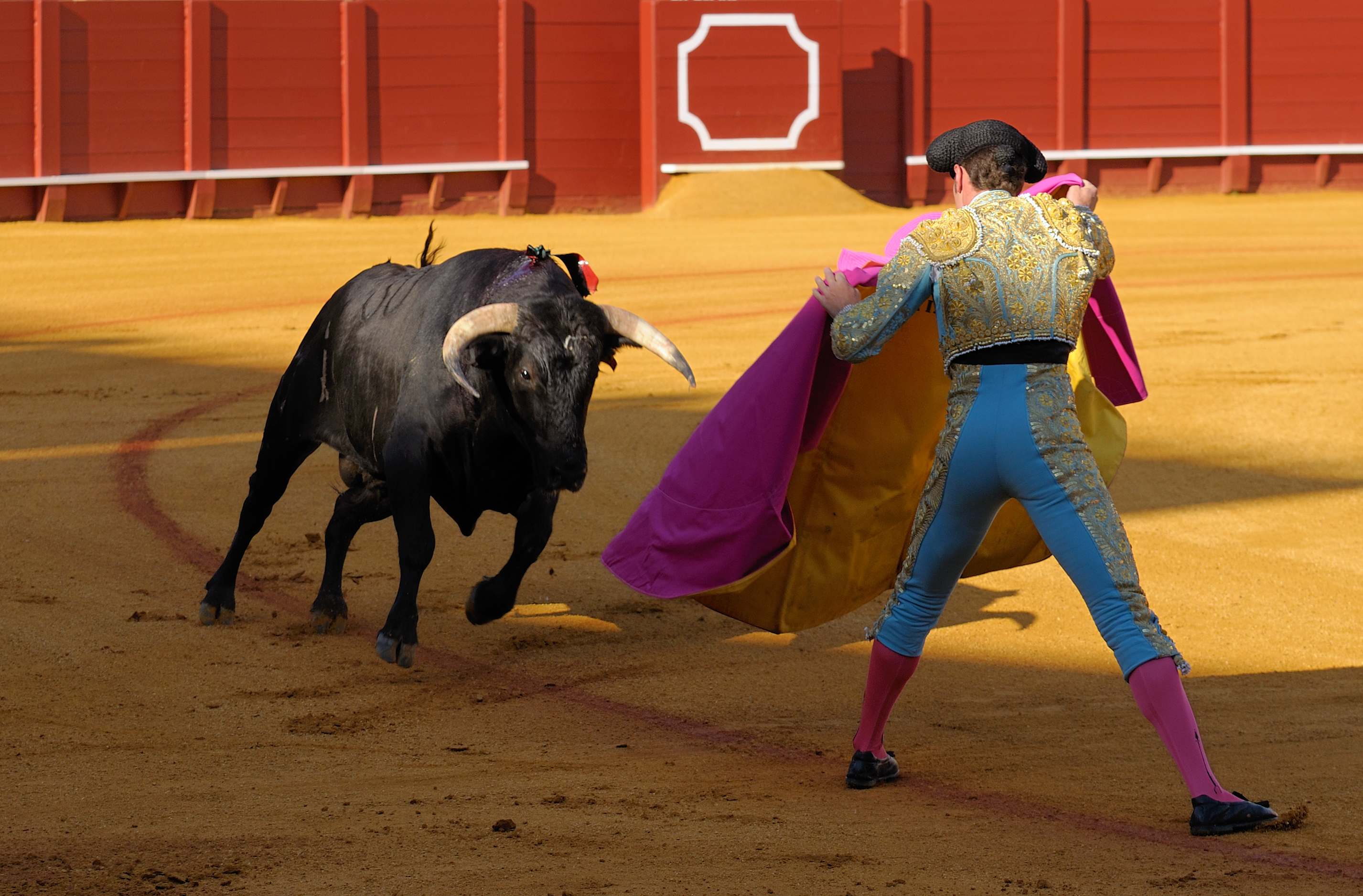 La Verónica. Plaza De Toros De La Maestranza. Seville, Spain